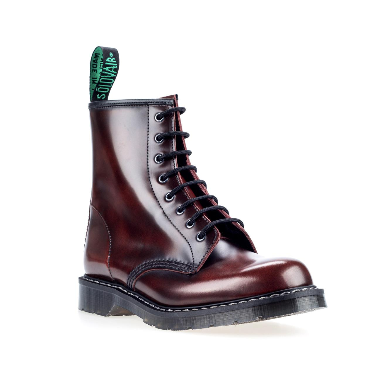 This is the current 2018 Solovair Derby boot